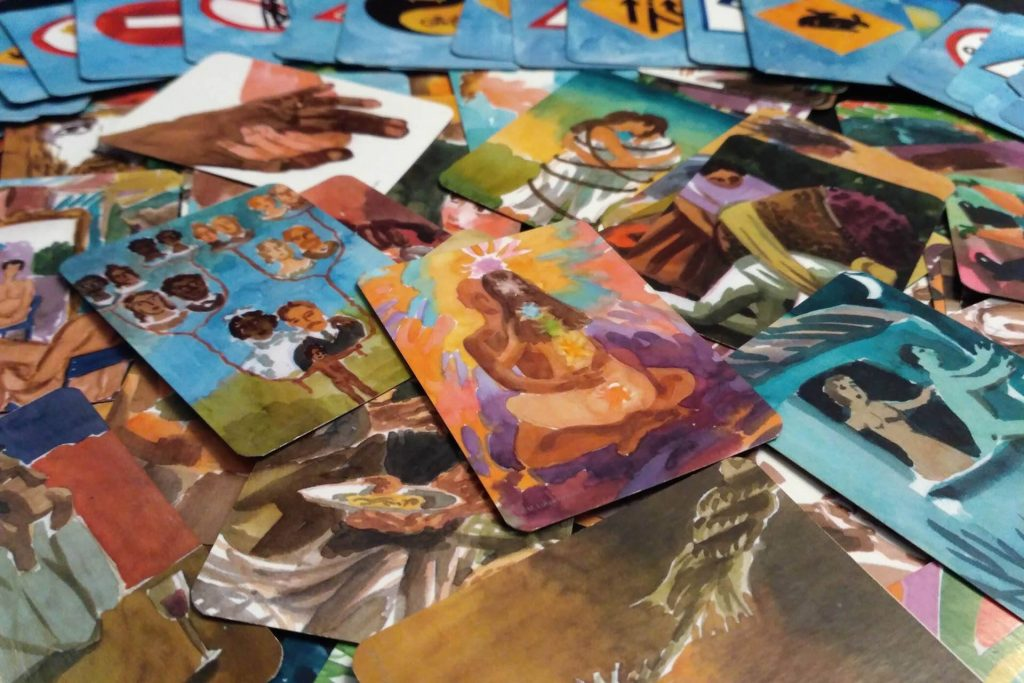 Метафоричні асоціативні карти з колоди Tandoo